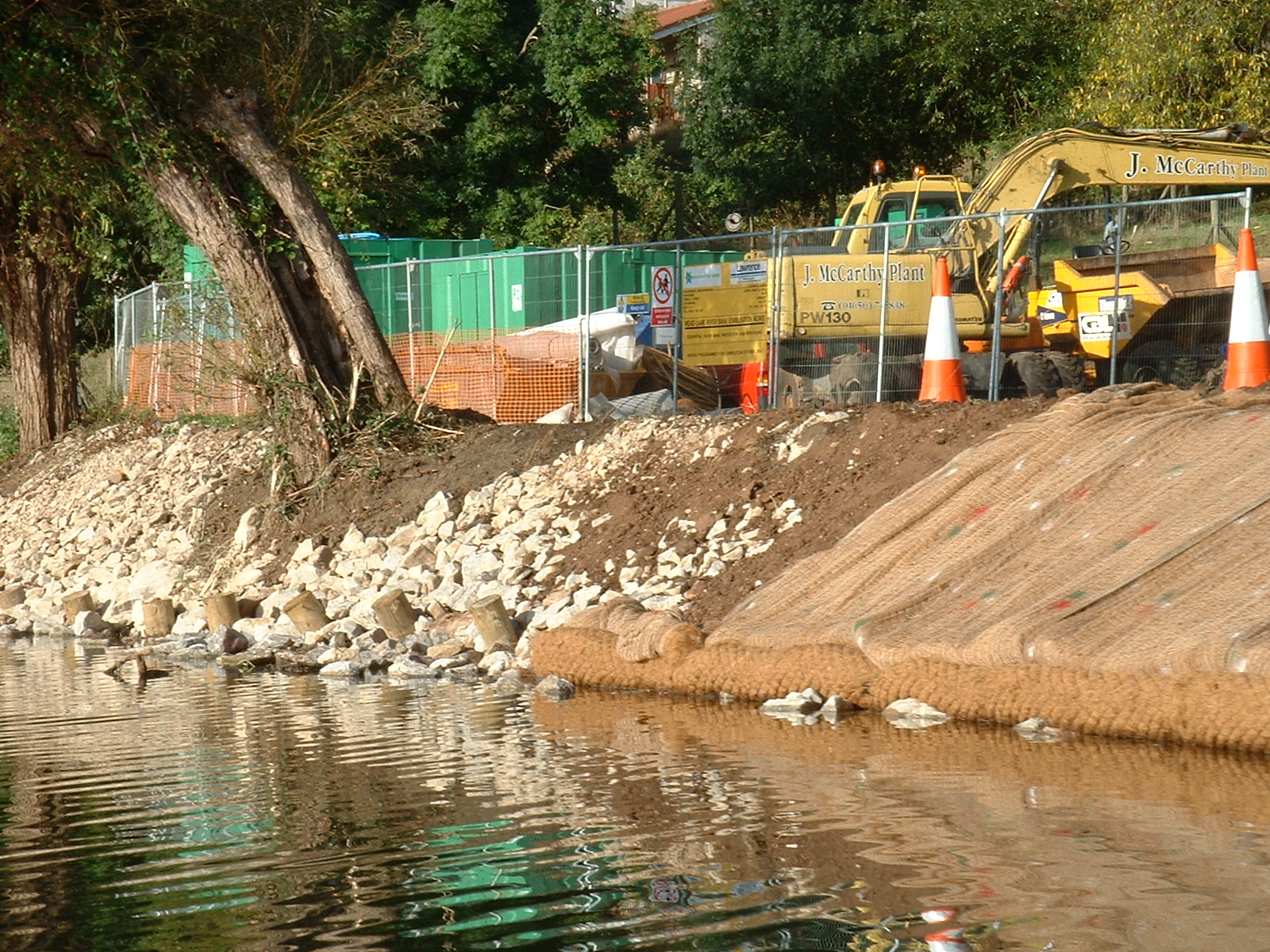 River bank repair on the River Avon, at Mead Lane Saltford. The natural bank is being strengthened with boulders and logs as seen on the left, then covered with a jute or hessian material which allows plant growth through the material. A minor road, Mead Lane, is on the river bank, and requires protection from erosion. Work carried out for British Waterways. This method of repair is described as a bio-engineering solution to "combine the advantage of engineering structures with the engineering and environmental benefits of vegetation". A long description of the technique is: "Rock armour deposited at the toe of the bank providing protection against erosion up to the mean water level. Area behind the rocks to be filled with granular material at a shallow gradient, with a geotextile separation membrane behind the rock face to prevent fines being washed through. Reconstructed riverbank to be seeded and covered with a degradable geotextile matting, pinned into place at regular intervals. Fibre roll, planted with well established vegetation to be fixed on top of rock armour at the mean water level".